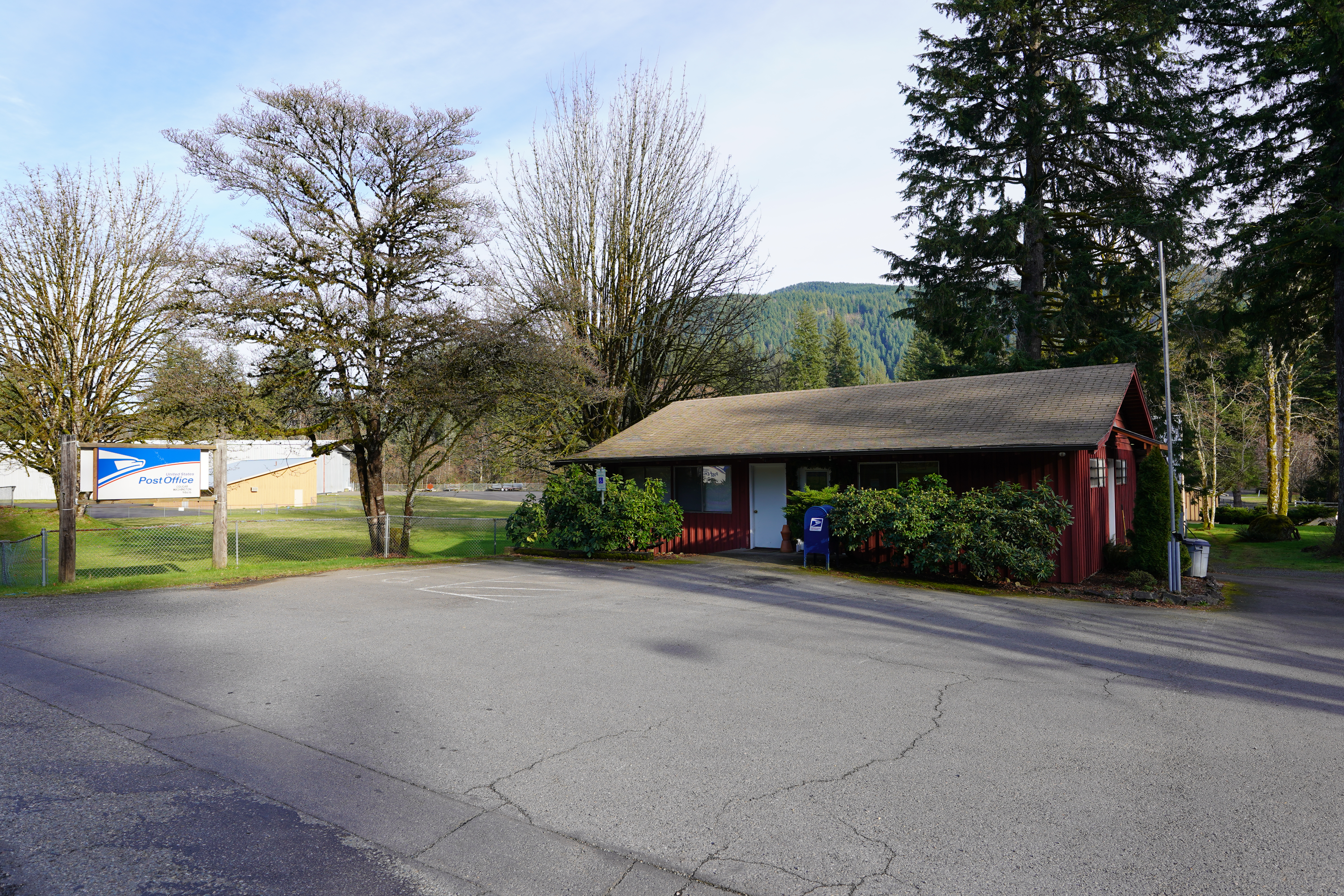 Shown is the United States Post Office for Cougar, Washington. Photograph taken on 2020-03-09T00:11:41Z.